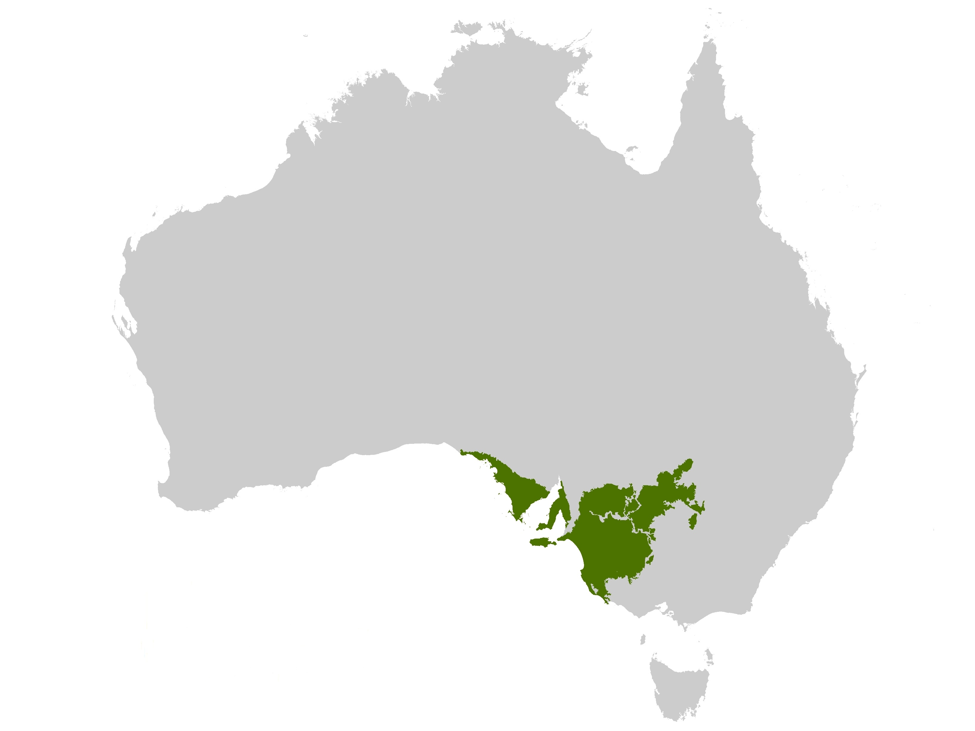 South - central Australia Mediterranean forests, woodlands and scrubs.